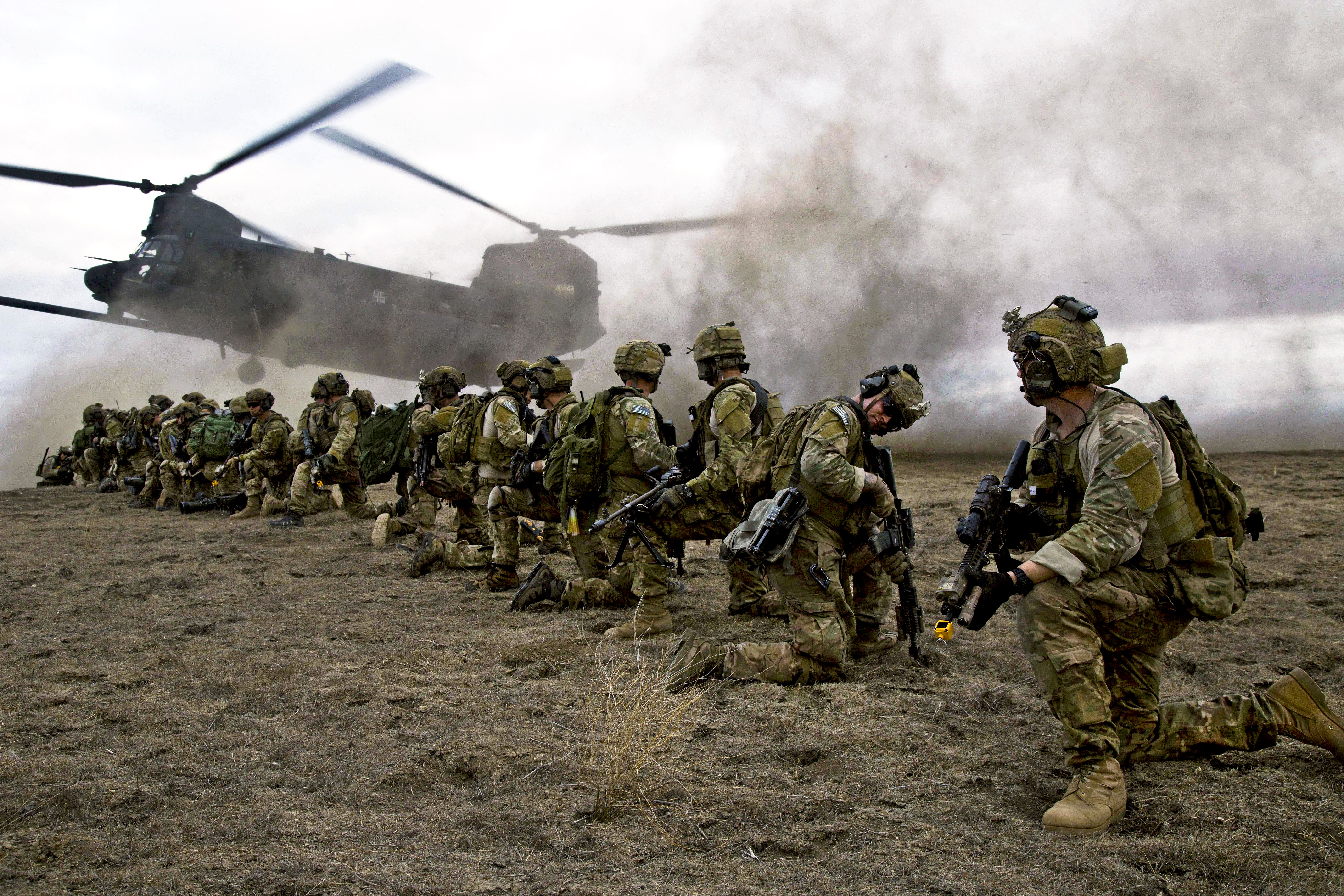 U.S. Army Rangers, assigned to 2nd Battalion 75th Ranger Regiment, prepare for extraction from their objective during Task Force Training on Fort Hunter Liggett, Calif., Jan. 30, 2014. Rangers constantly train to maintain their tactical proficiency. (U.S. Army photo by Spc. Steven Hitchcock))